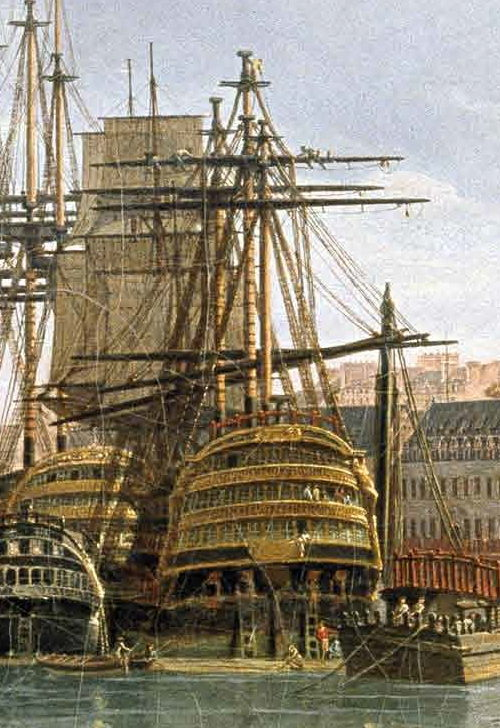 Républicain (ex-Royal Louis) Source: Arsenaux de Marine en France, Chasse-Marée/Glénat/Ministère de la Défense, ISBN 978-2-35357-034-8, p. 119